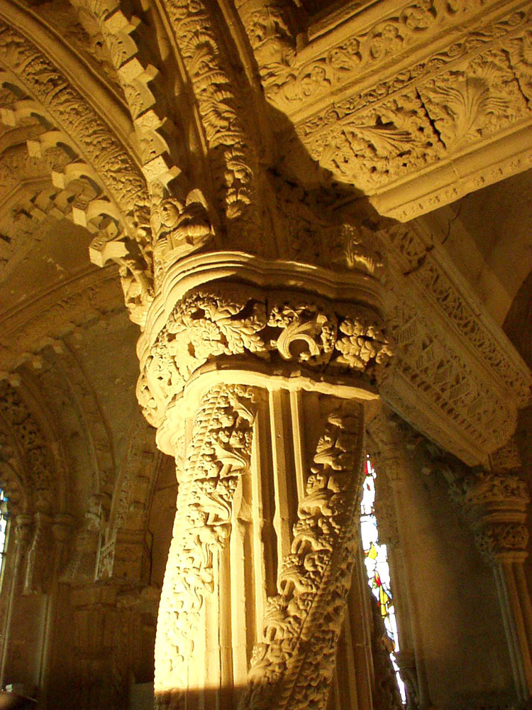 The Apprentice Pillar, which is said to be tied to Freemasonic legend.